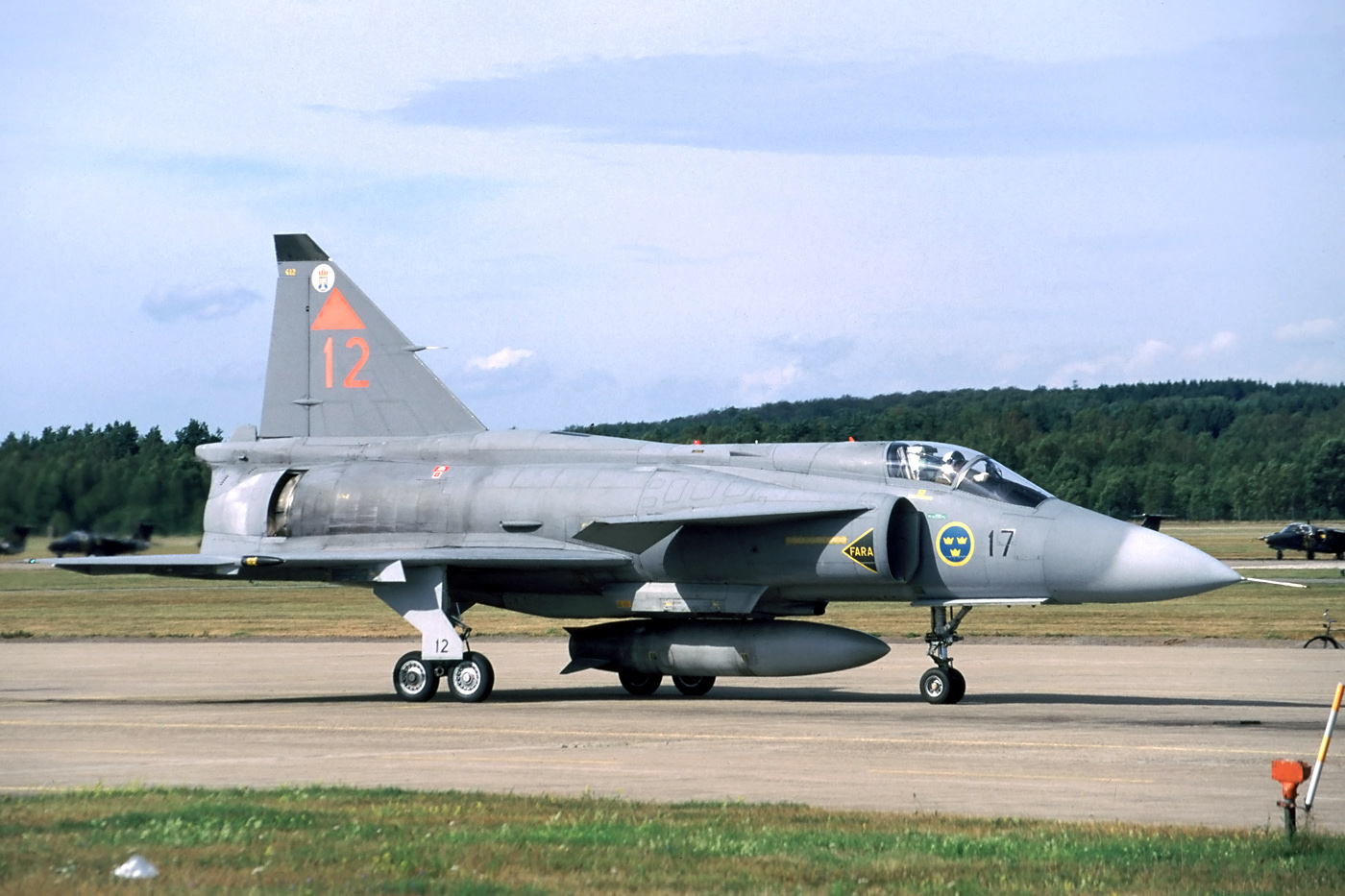 Taxiing in after its demo. The JA 37 was the fighter interceptor version of the Viggen. This is a JA 37D with the markings of F 17, that was based at Ronneby - Kallinge. 37412 / 12 now preserved in a museum in Östersund.